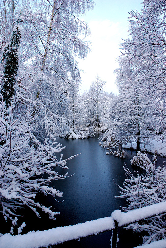 Bluebell Arboretum, England, in Winter, showing snow over pond.